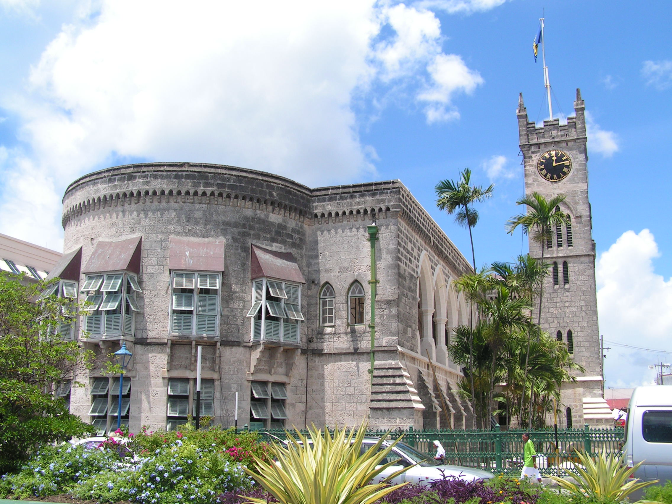 Parliament building (west wing) in Bridgetown, Barbados